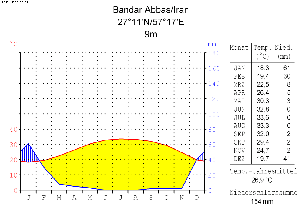 climate chart in the format by Walter and Lieth, metric, °Celsisus and millimeters, made with Geoklima 2.1